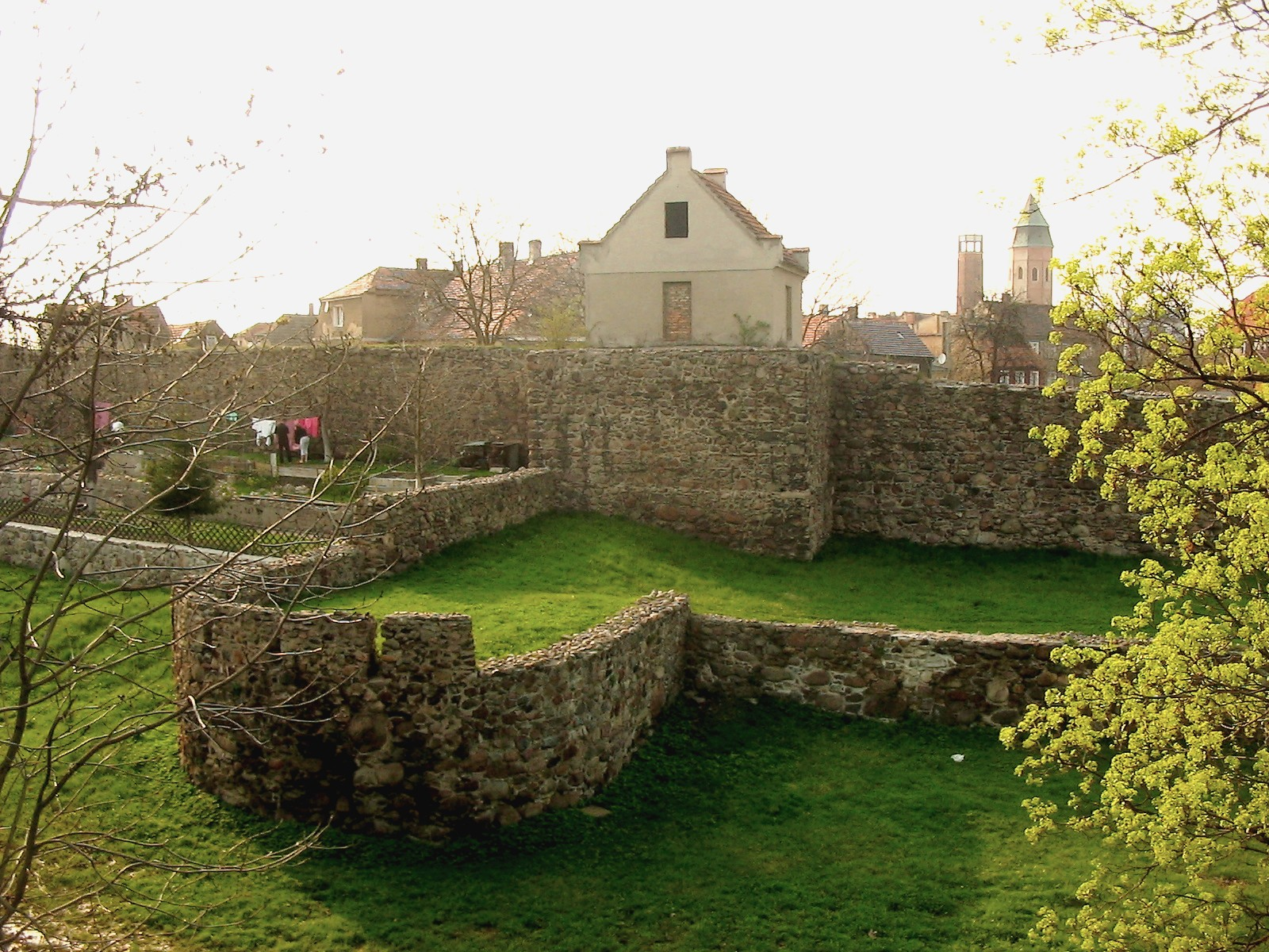 Defensive walls in Kożuchów Mury obronne Kożuchowa Author; Mohylek 17:25, 3 March 2007 (UTC)